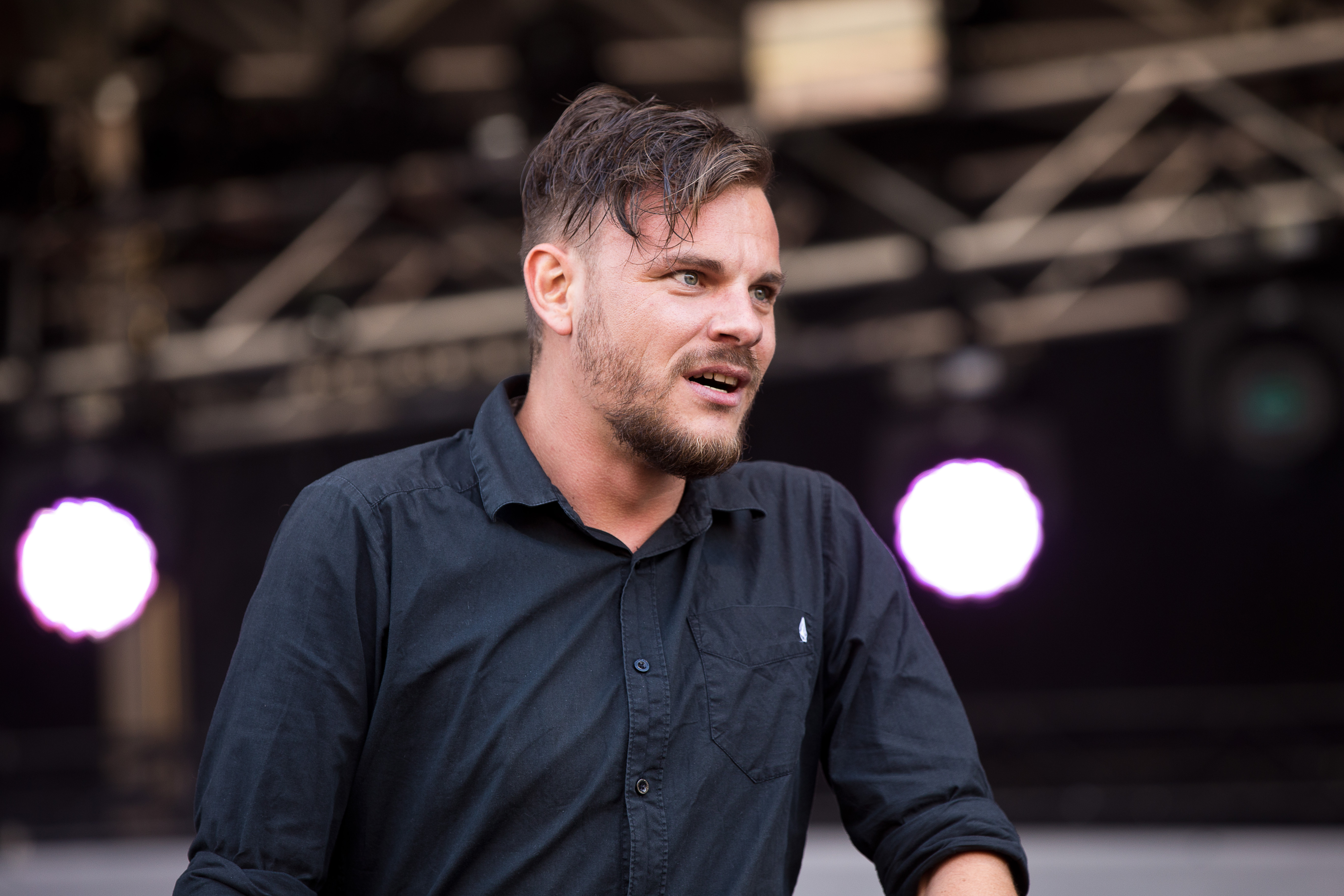 The German melodic death metal band Deadlock at the Rockharz Open Air 2016 in Ballenstedt/Germany.